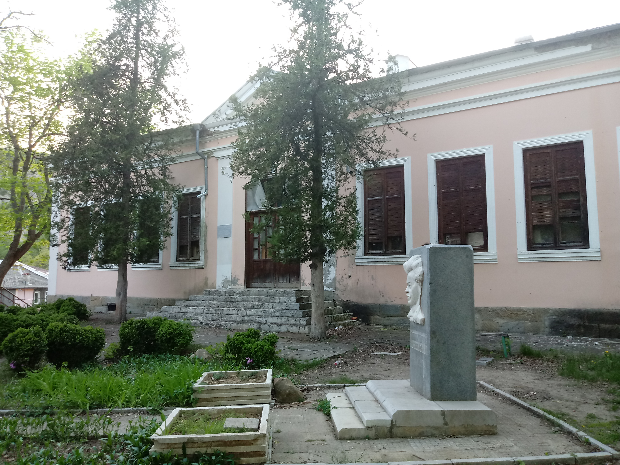 Five grade male school Yosif I, Lovech